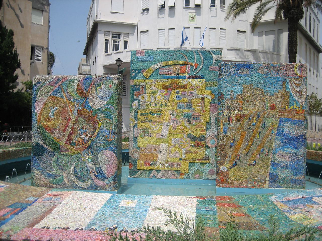 fountain & mosaic by Nahum Gutman at Bialik street, tel aviv-yaffo. the mosaic describe 4000 yers of tel aviv's history. from the mid 1970'